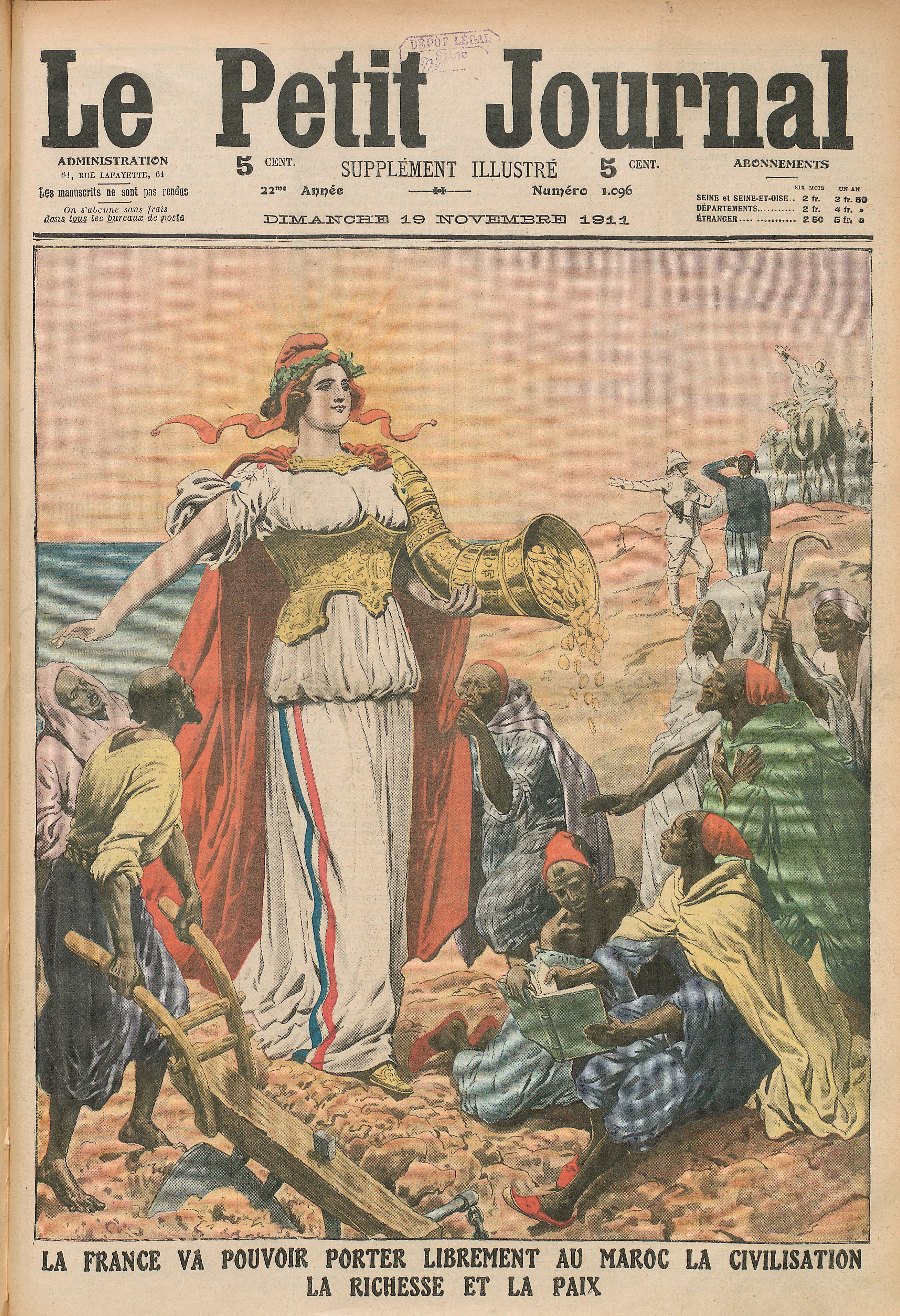 1911 cartoon, France brings civilization, wealth, and peace to Morocco.